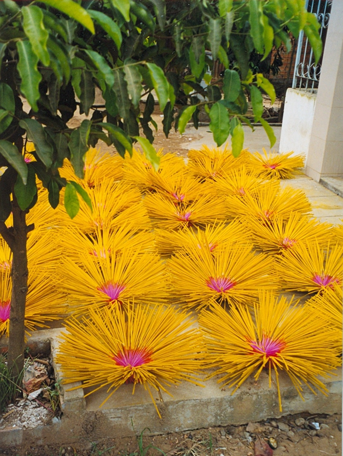 Incense sticks, Trà Vinh, Mekong Delta, Vietnam.